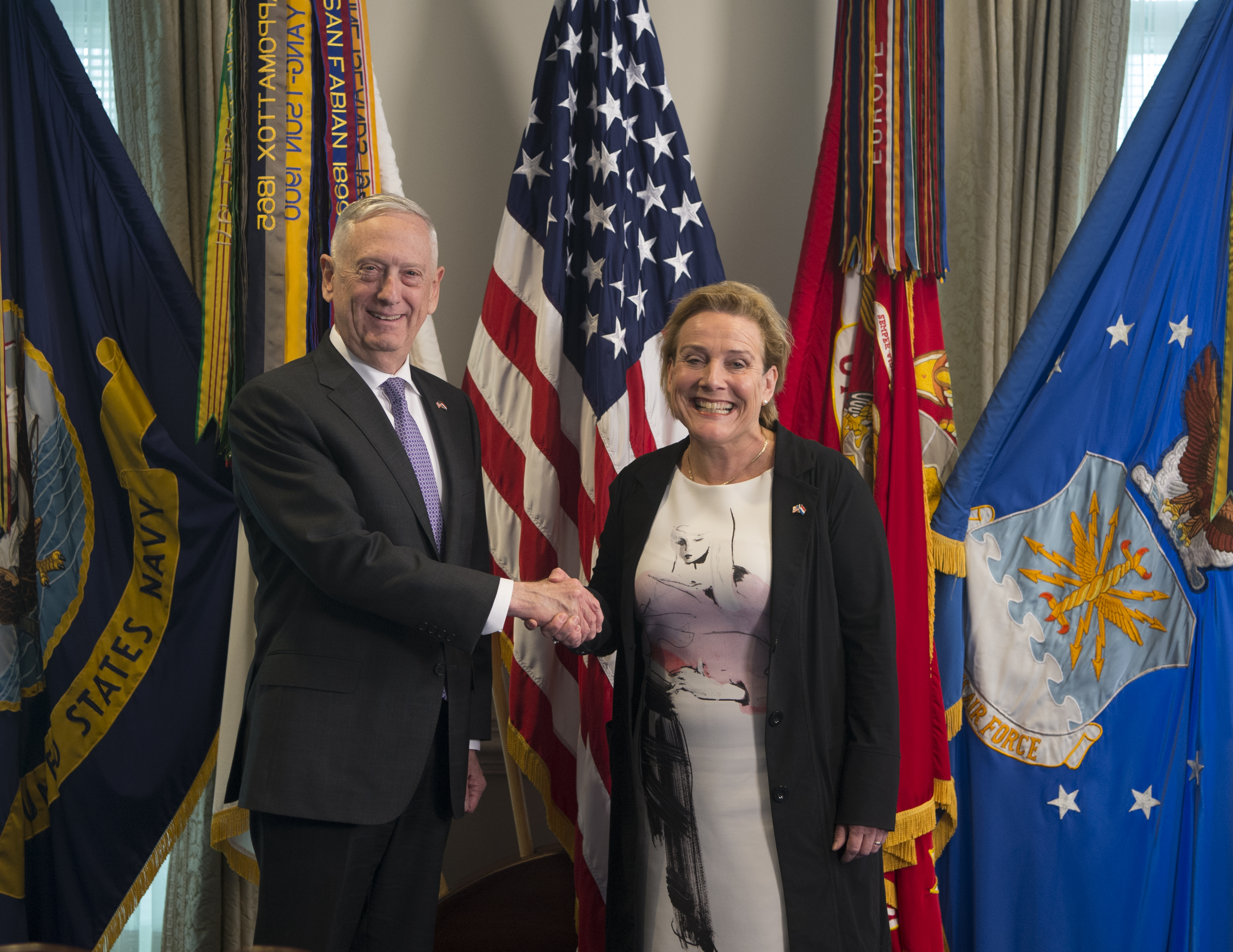 Defense Secretary James N. Mattis meets with Netherlands Minster of Defense Ank Bijleveld at the Pentagon in Washington, D.C.